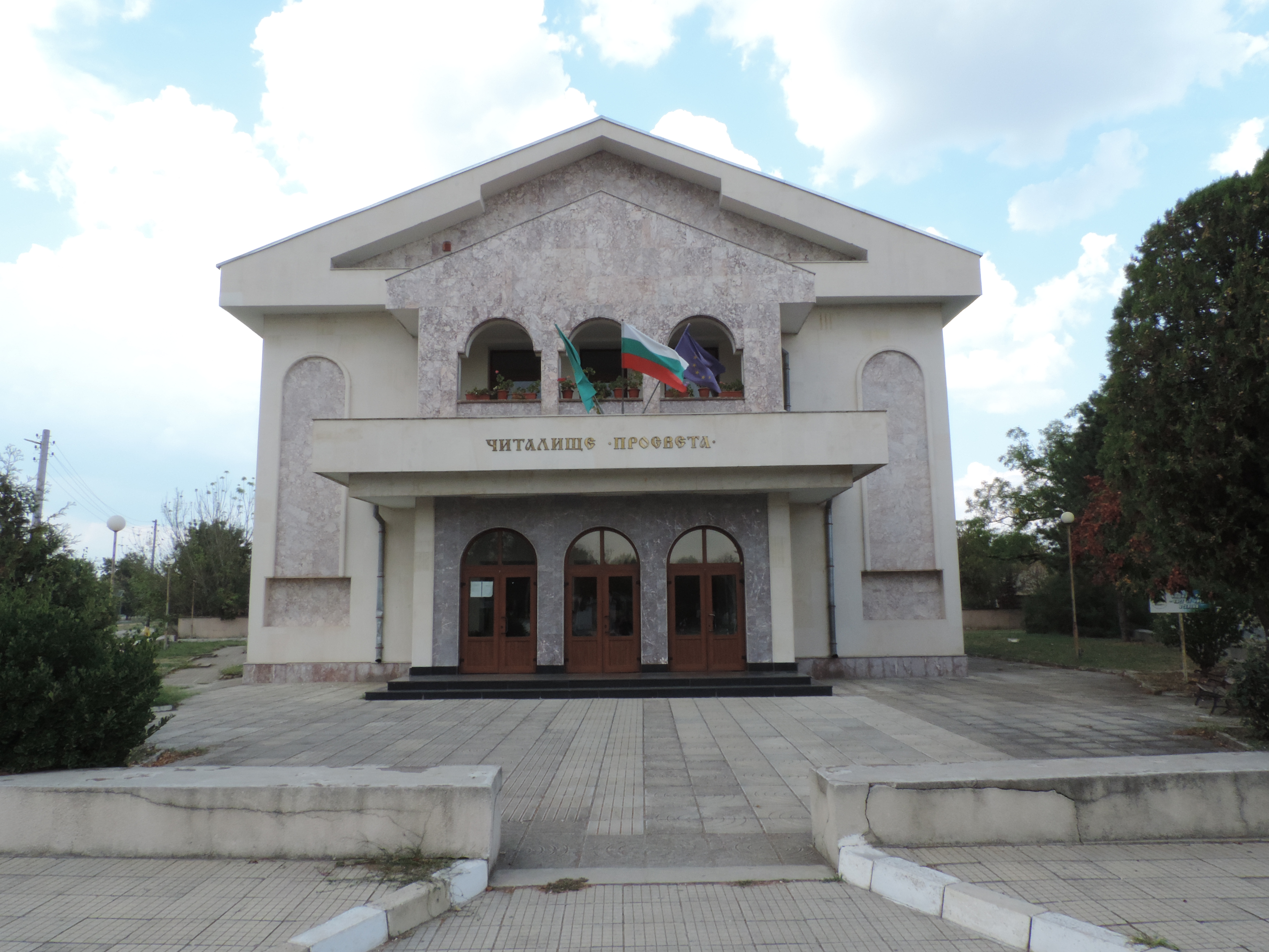 Chitalishte "Prosveta" in Straldzha, Yambol Province, Bulgaria